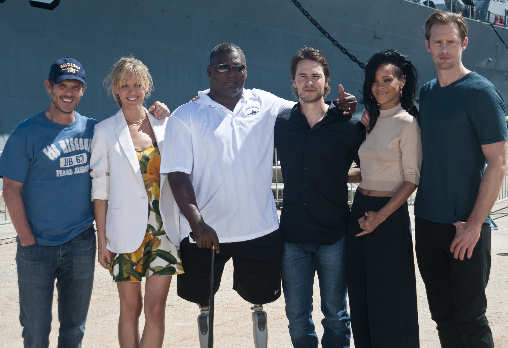 From left, Peter Berg, the director of 2012 science fiction naval war film, "Battleship," along with cast members Brooklyn Decker, Greg Gadson, Taylor Kitsch, Rihanna and Alexander Skarsgard, stand in front of the USS Missouri Memorial at Joint Base Pearl Harbor-Hickam in Hawaii April 28, 2012. The cast and crew attended events in Hawaii to promote the film's opening in the United States. (U.S. Navy photo by Mass Communication Specialist 3rd Class Dustin W. Sisco)